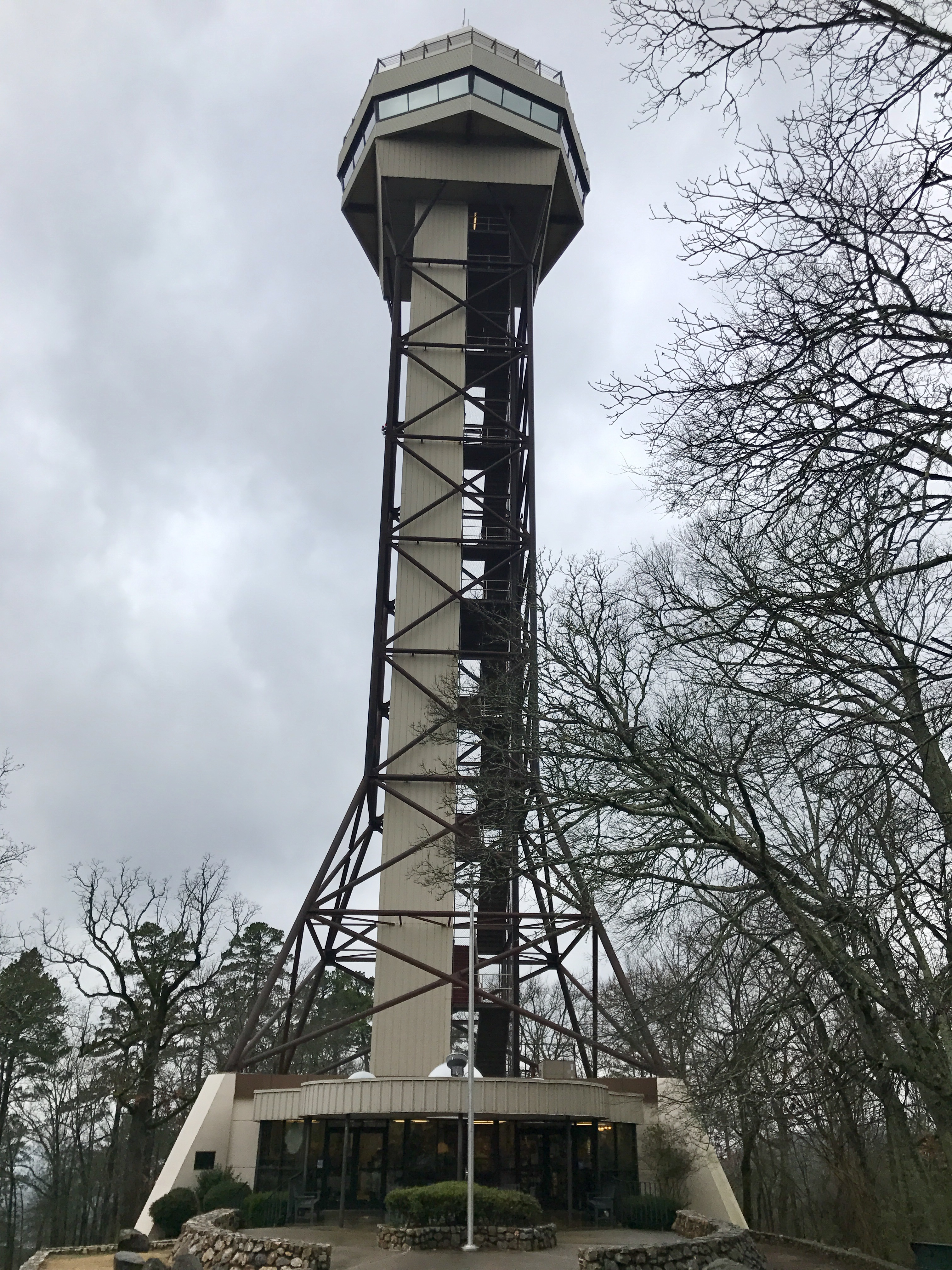 Hot Springs Mountain Tower, February 2018